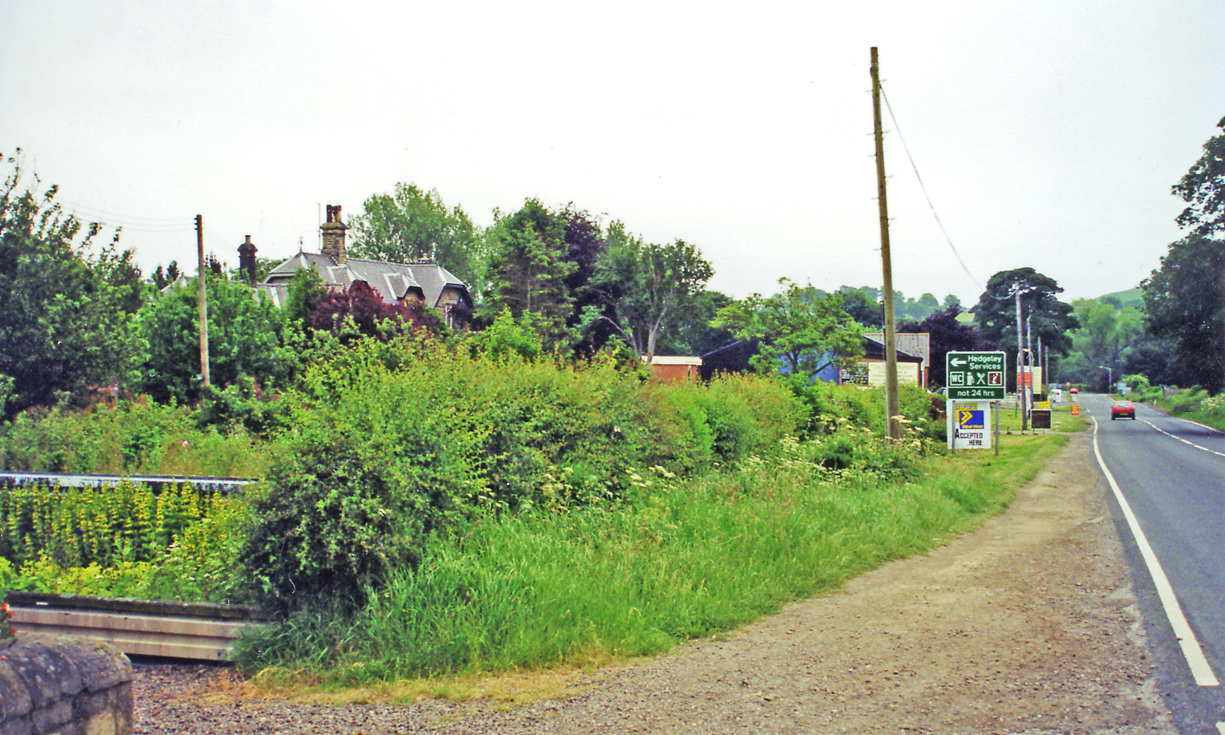 Hedgeley: site/remains of station. View southward on A697, parallel to the course of former course of ex-NER Alnwick - Wooler - Coldstream line, closed to passengers 22/9/30, finally Alnwick - Ilderton 2/3/53, Wooler - Coldstream 3/65. The former station, long since a private residence, is behind the bushes on the left.